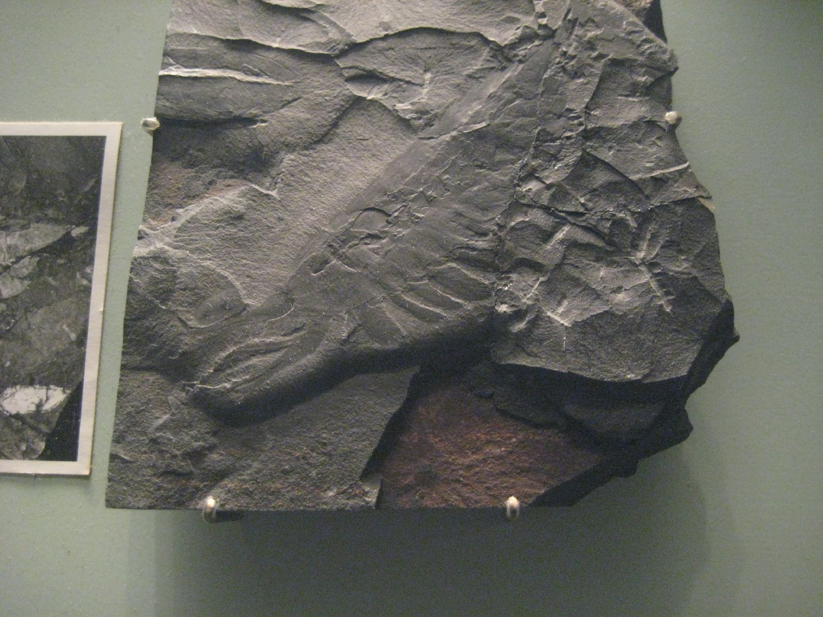 Arthropod From the Burgess Shale.